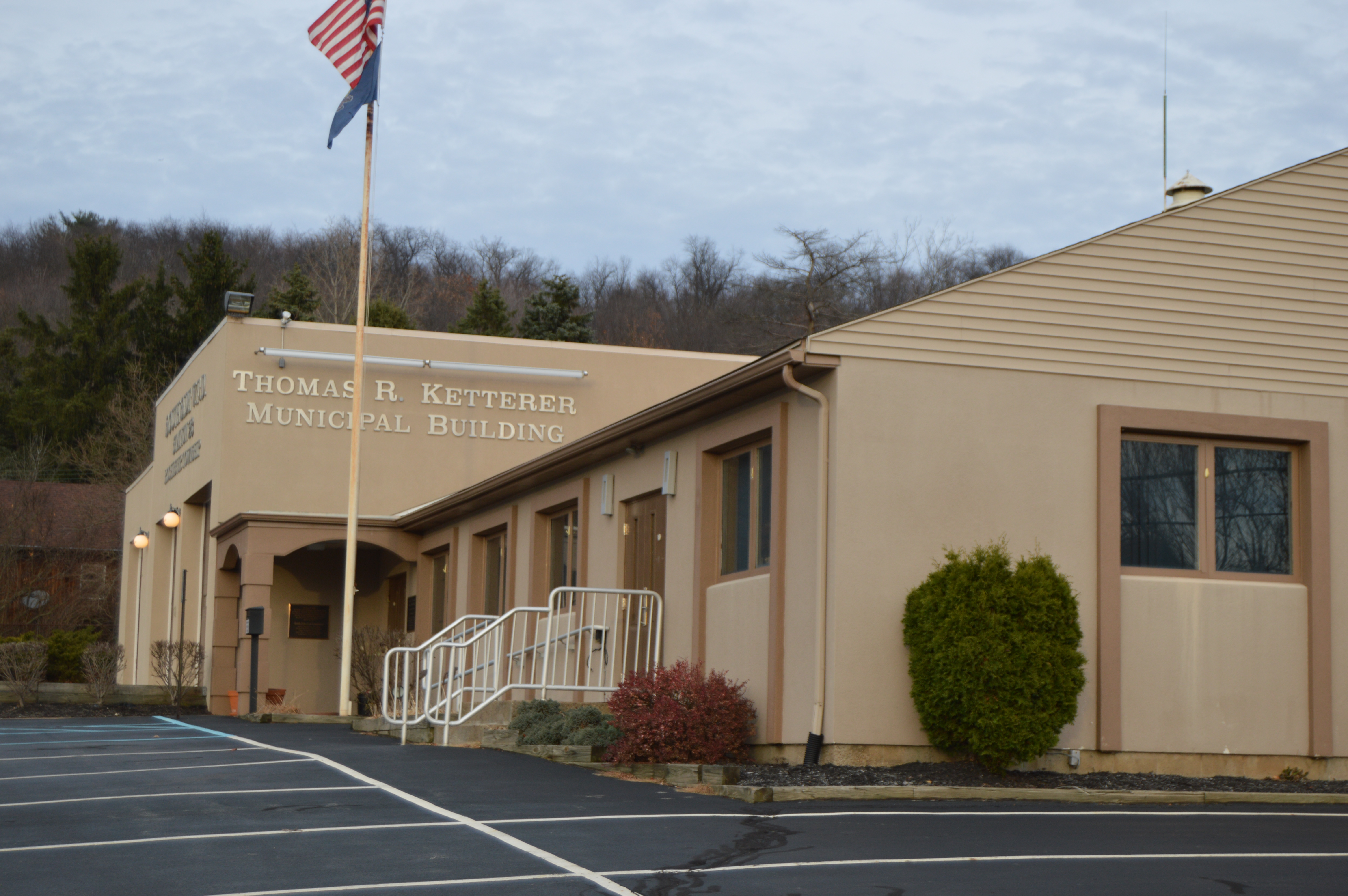 Front of the Rochester Township municipal building, located on the northeastern corner of the junction of Charlotte Avenue, Elm Street, and Washington Street in Rochester Township, Beaver County, Pennsylvania, United States.